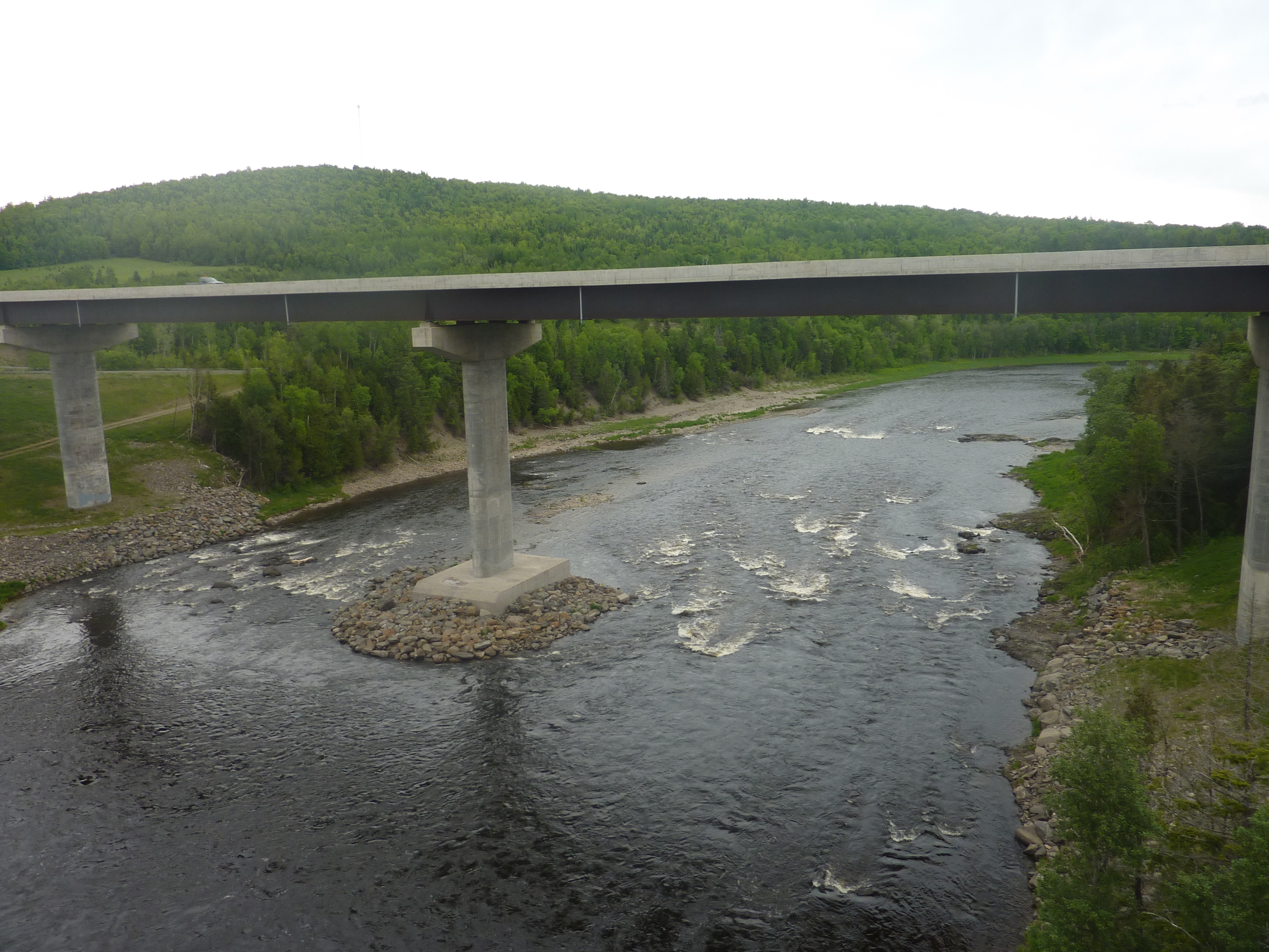 Highway 2 Bridge over Aroostook River in Aroostook, New Brunswick